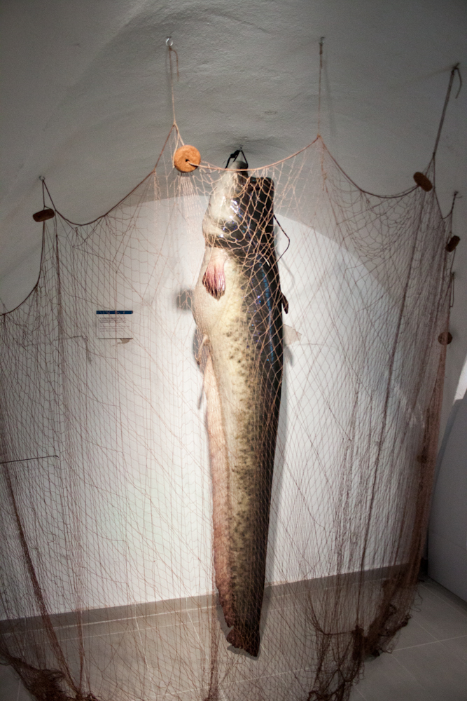 Record size wels catfish,_Location - Lake Töröcskei,_Hatvan; length - 230 cm, weight - 113 kglabel QS:Len,"Record size wels catfish,_Location - Lake Töröcskei,_Hatvan; length - 230 cm, weight - 113 kg" label QS:Lhu,"Rekordméretű harcsa a Töröcskei-tóból, hossz 230 cm, súly 113 kg"